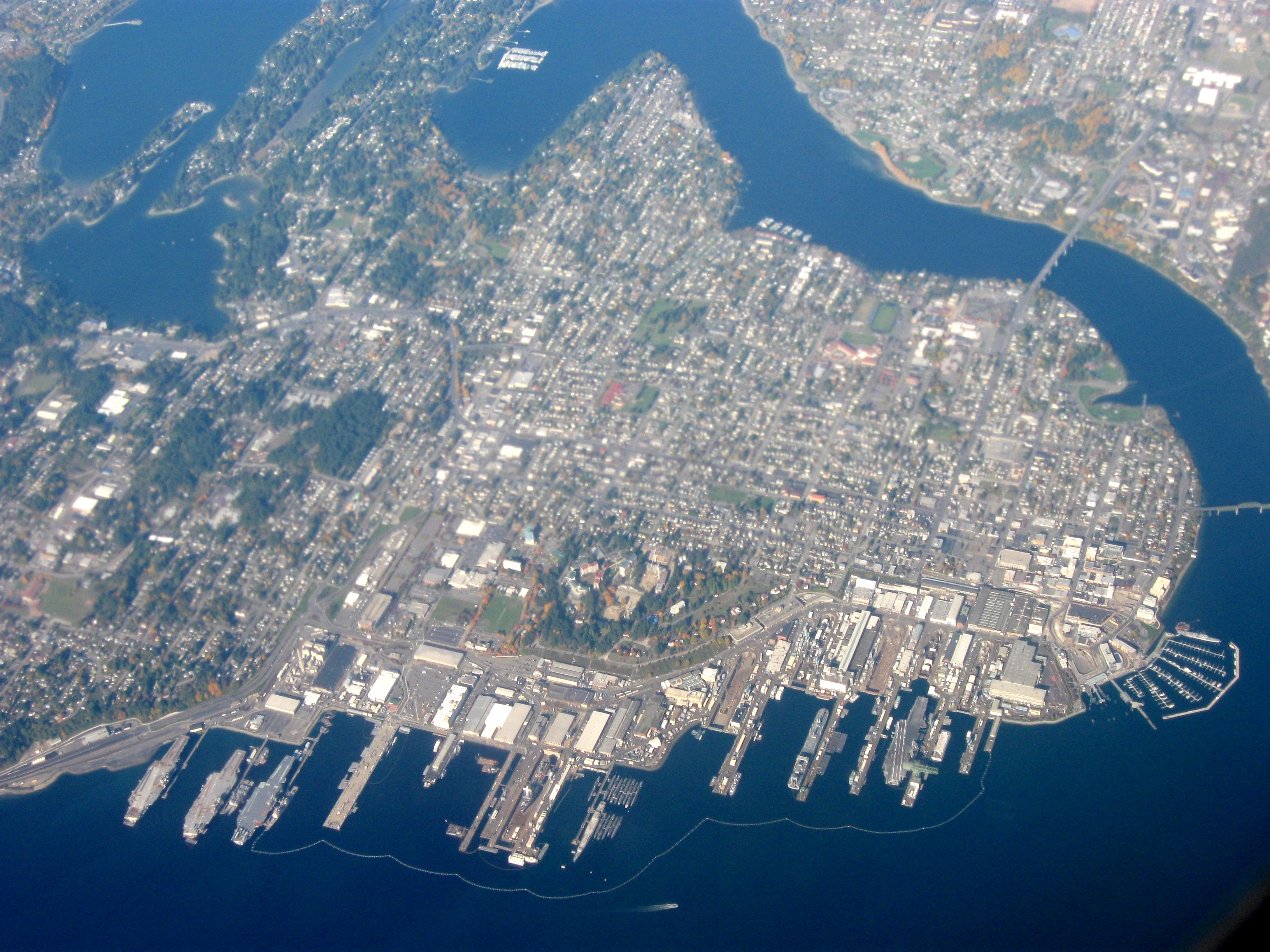 Aerial view of Bremerton, Washington, surrounded on three sides by water, out over Olympic Peninsula, facing northwest.